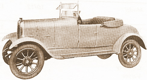 1923 Whitlock 11 hp